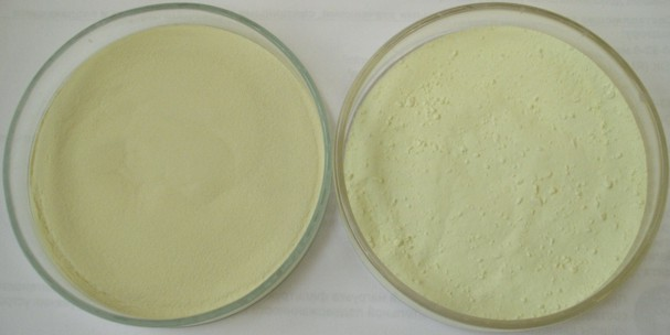 Phosphorescent pigments